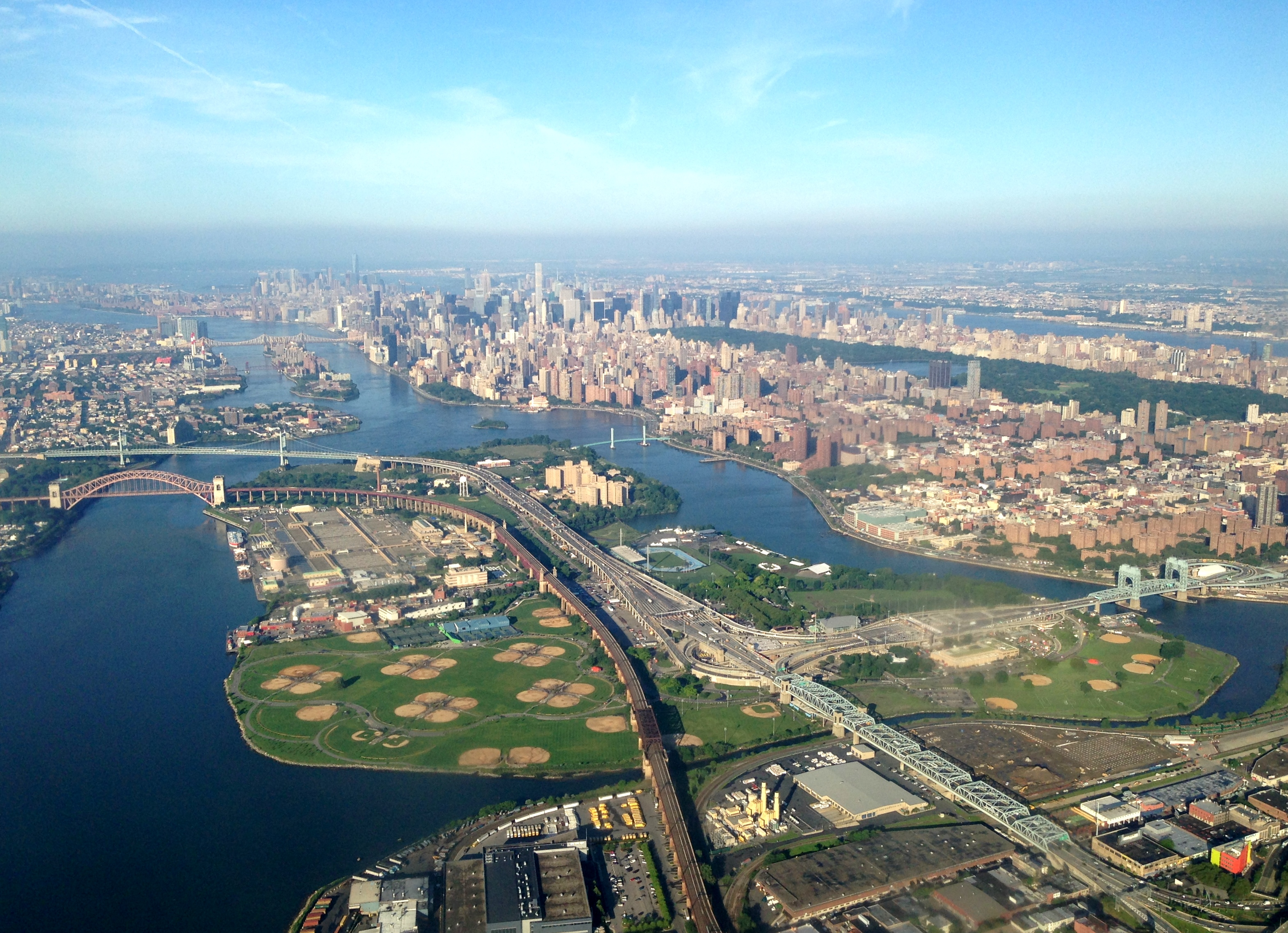 Randalls and Wards Islands and the Triborough Bridge, New York City, as seen from an aircraft departing LaGuardia Airport.